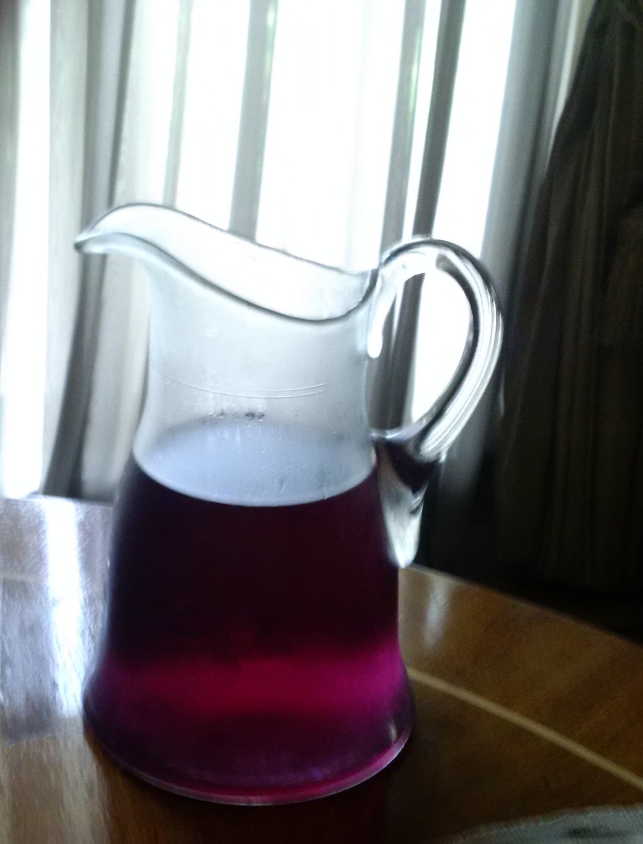 Grewia asiatica or Falsa